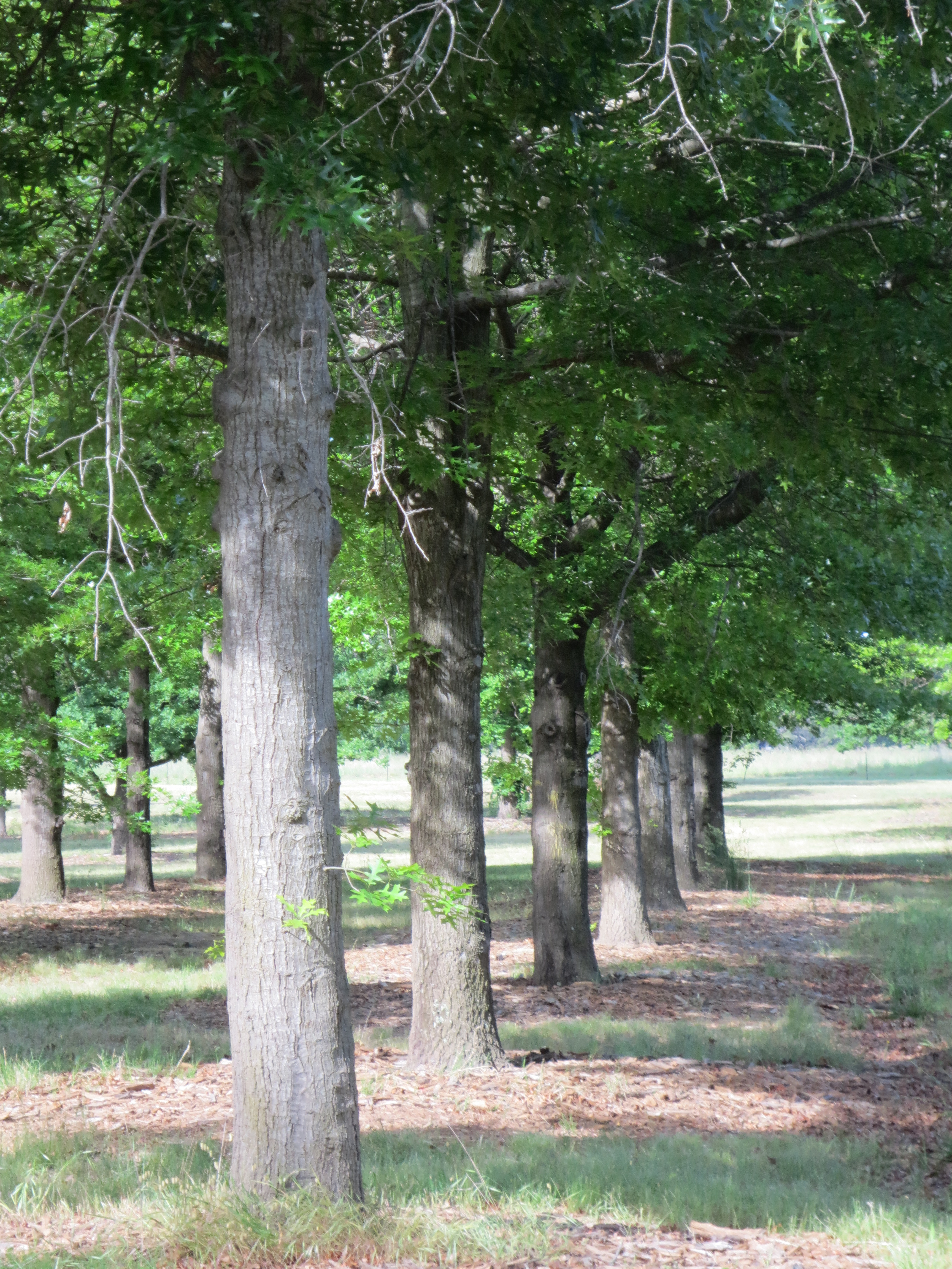 tree trunks Lindsay Pryor National Arboretum Yarramundi Reach Lake Burley Griffin Canberra